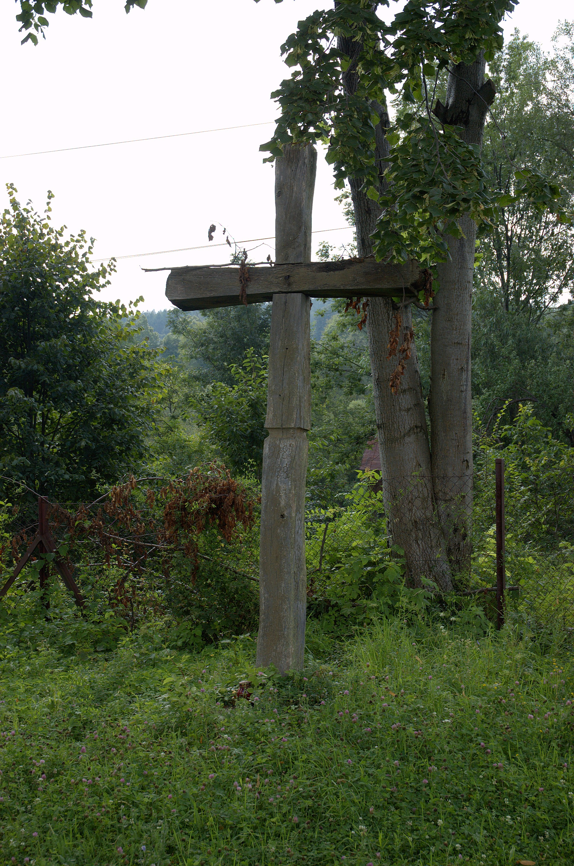 Greek Catholic church in Kopysno